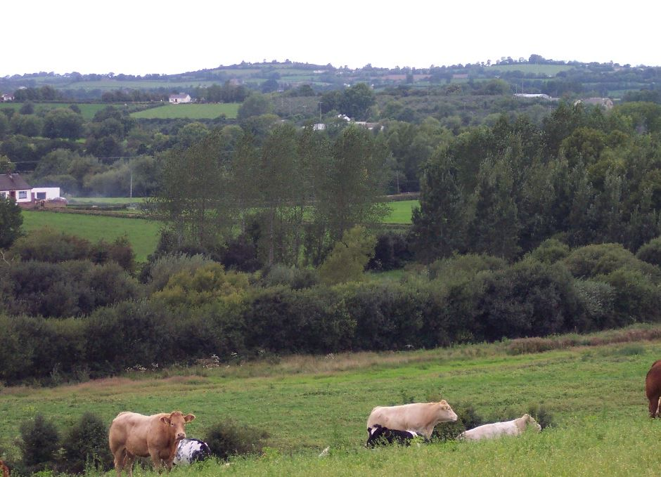 The Irish shot used bushes like these as cover to approach the English flanks during the battle. These are on the southern slopes of the hill at Tullygoonigan townland